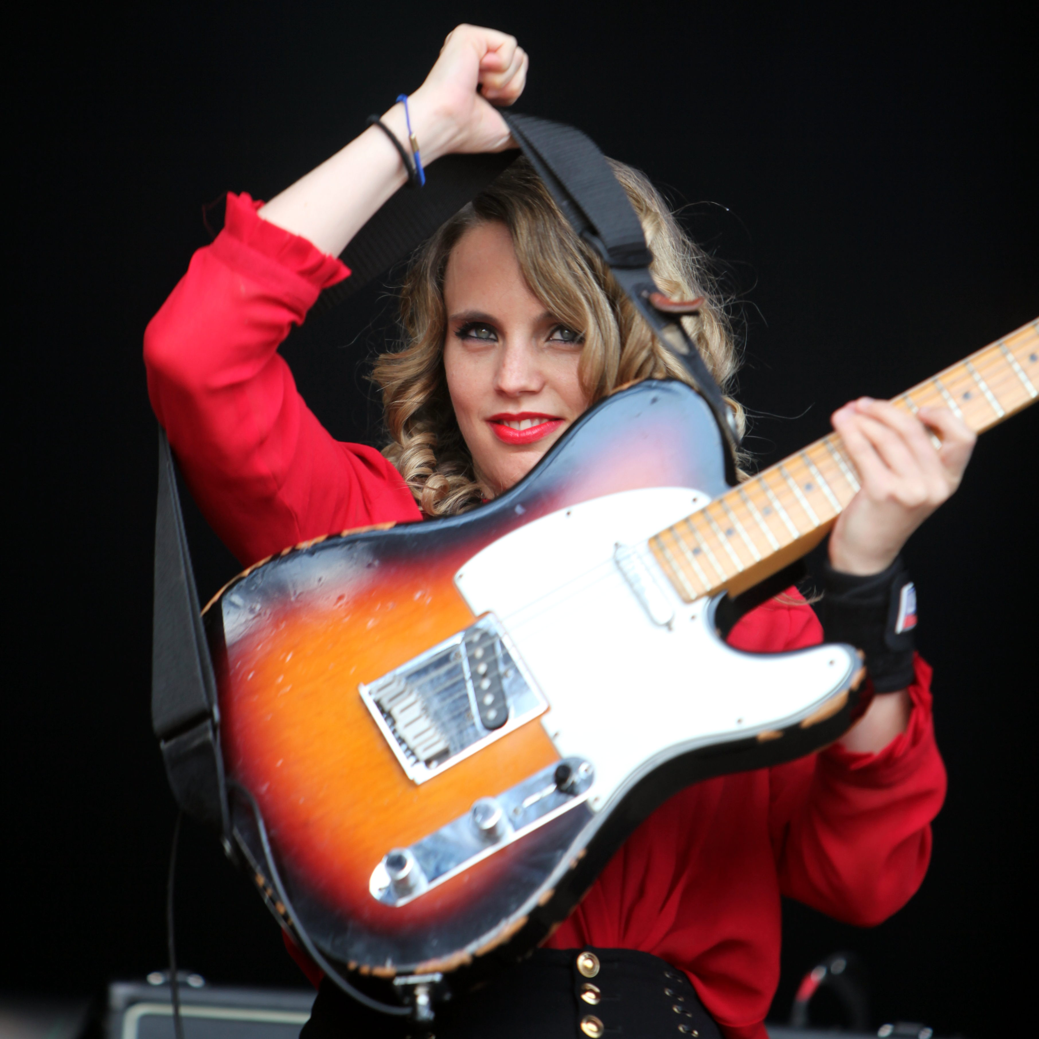 Anna Calvi at the Eurockéennes de Belfort 2011 The making of this document was supported by Wikimedia CH. (Submit your project!) For all the files concerned, please see the category Supported by Wikimedia CH.